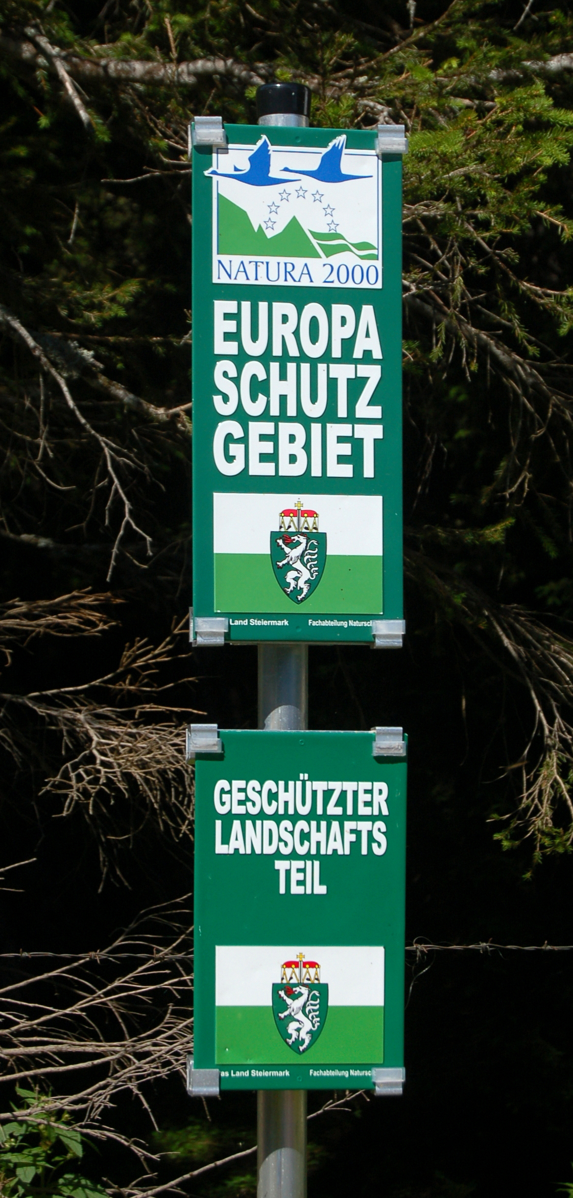 Europaschutzgebiet (European protected area) on Natura 2000 rules and regulations.